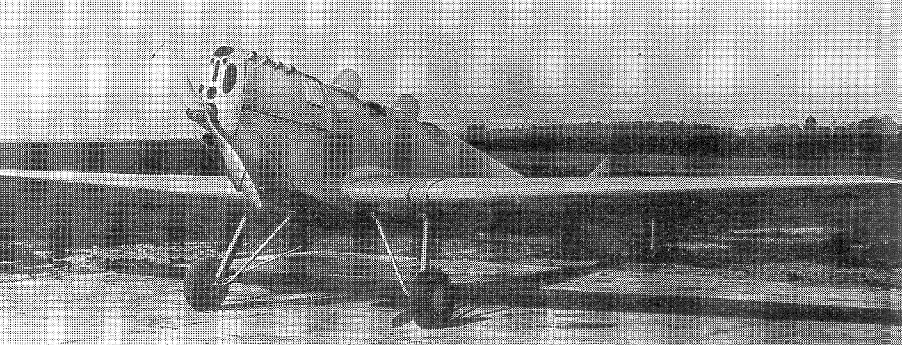 Miles M.2 Hawk G-ACHJ, July 1933